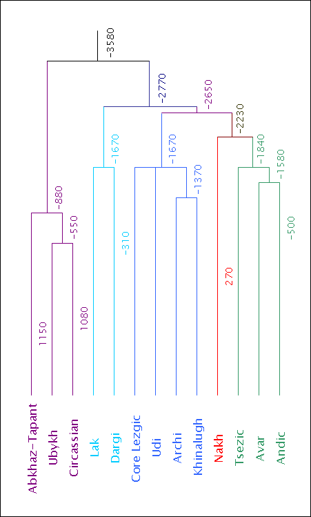 Based on Starostin's calculations of his 'recalibrated' glottochronology. Information extracted from by Václav Blažek.